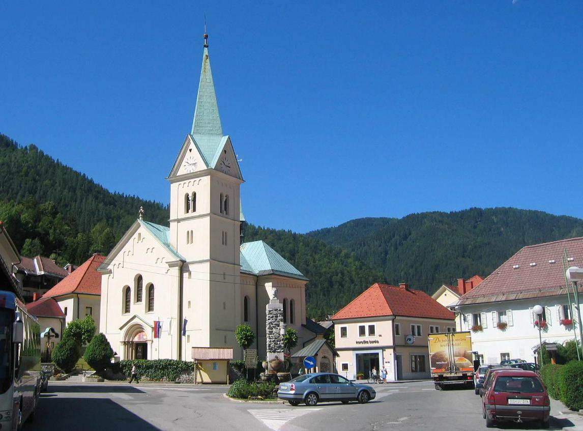 Črna na Koroškem, main square of the town (north Slovenia) photo:Ziga 21:26, 12 August 2006 (UTC)